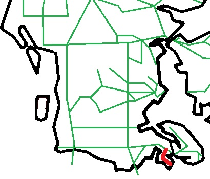 Map of railways in Southern Jutland in Denmark with the state railway Broagerbanen in red.